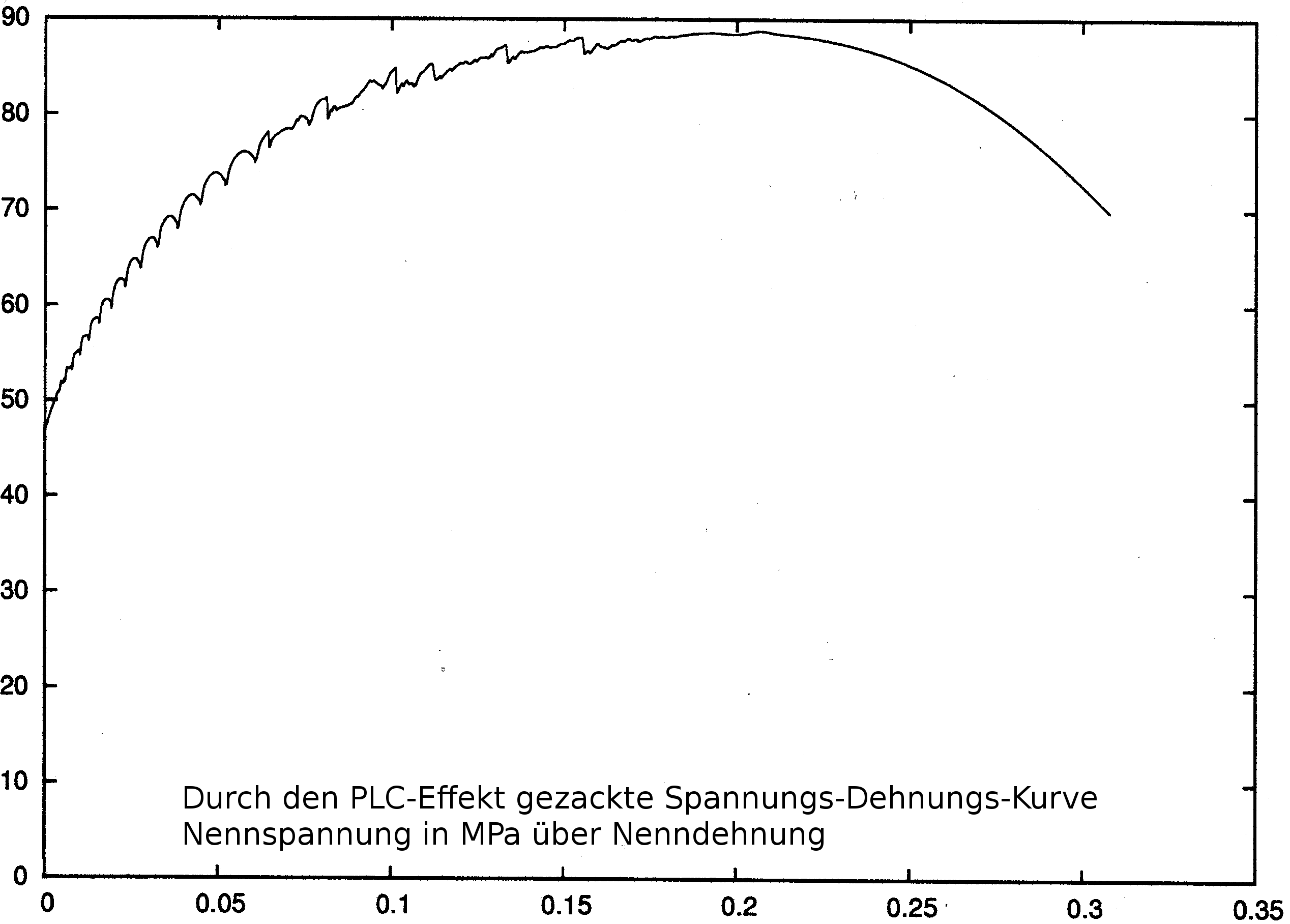 Stress-strain curve serrated with PLC-effect